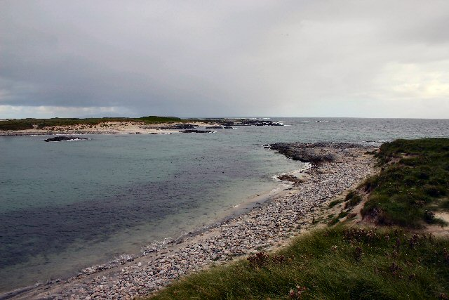 Sibhinis, from Ceann Iar Between half and low tide it is possible to walk across from Ceann Iar to the neighbouring island of Sibhinis (Shivinish). The tide was high when the photo was taken.